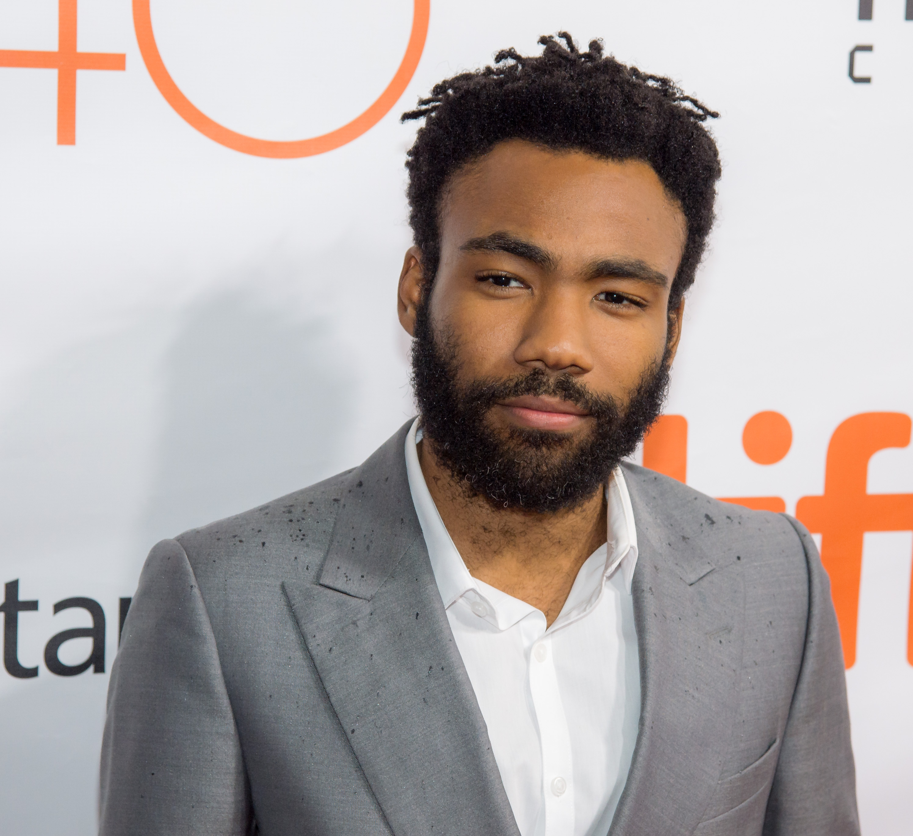 Actor Donald Glover attends the world premiere for "The Martian” on day two of the Toronto International Film Festival at the Roy Thomson Hall, Friday, Sept. 11, 2015 in Toronto. NASA scientists and engineers served as technical consultants on the film. The movie portrays a realistic view of the climate and topography of Mars, based on NASA data, and some of the challenges NASA faces as we prepare for human exploration of the Red Planet in the 2030s.